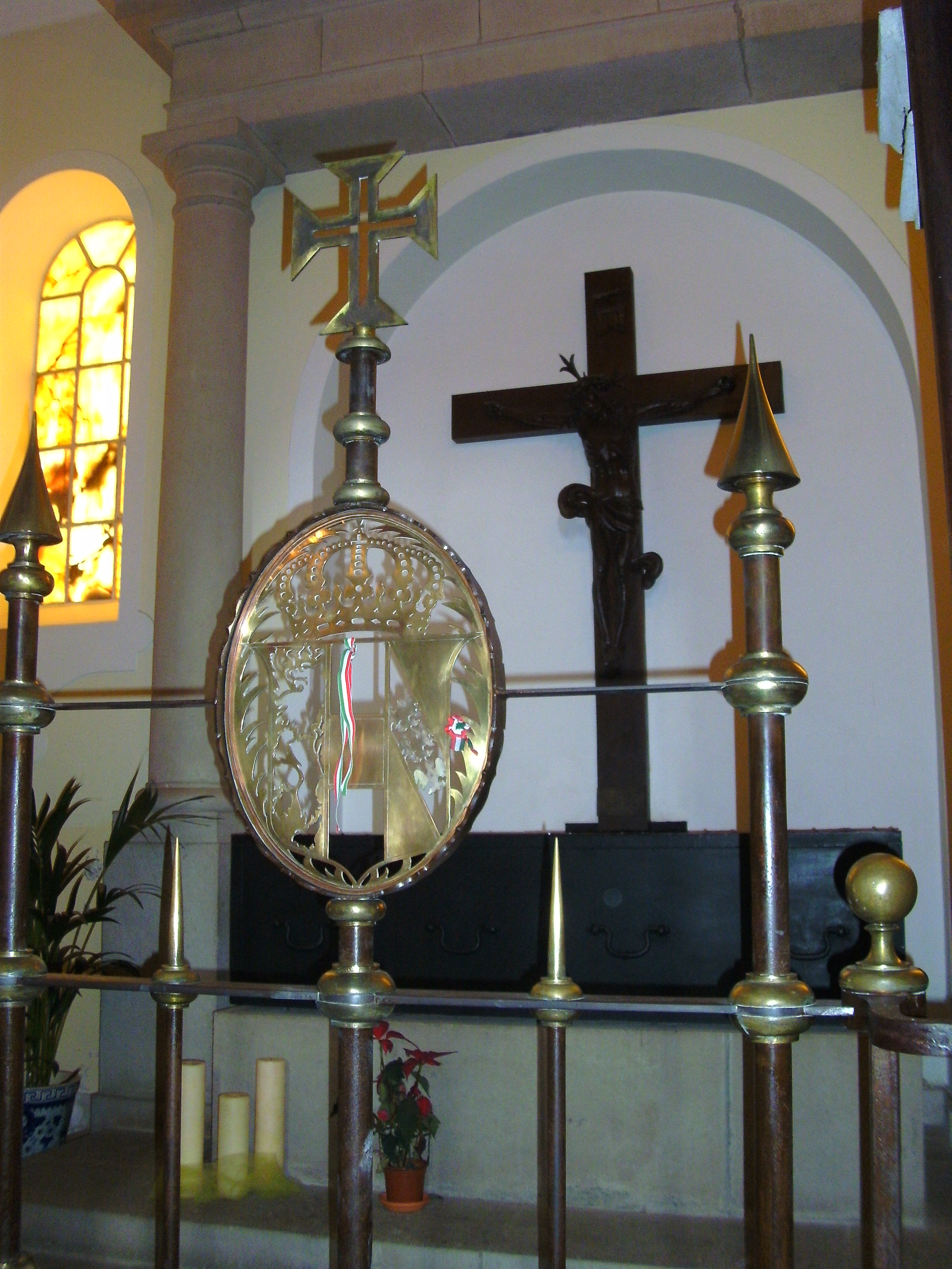 tomb of Charles I. Imperor of Austria-Hungary; Monte/Madeira